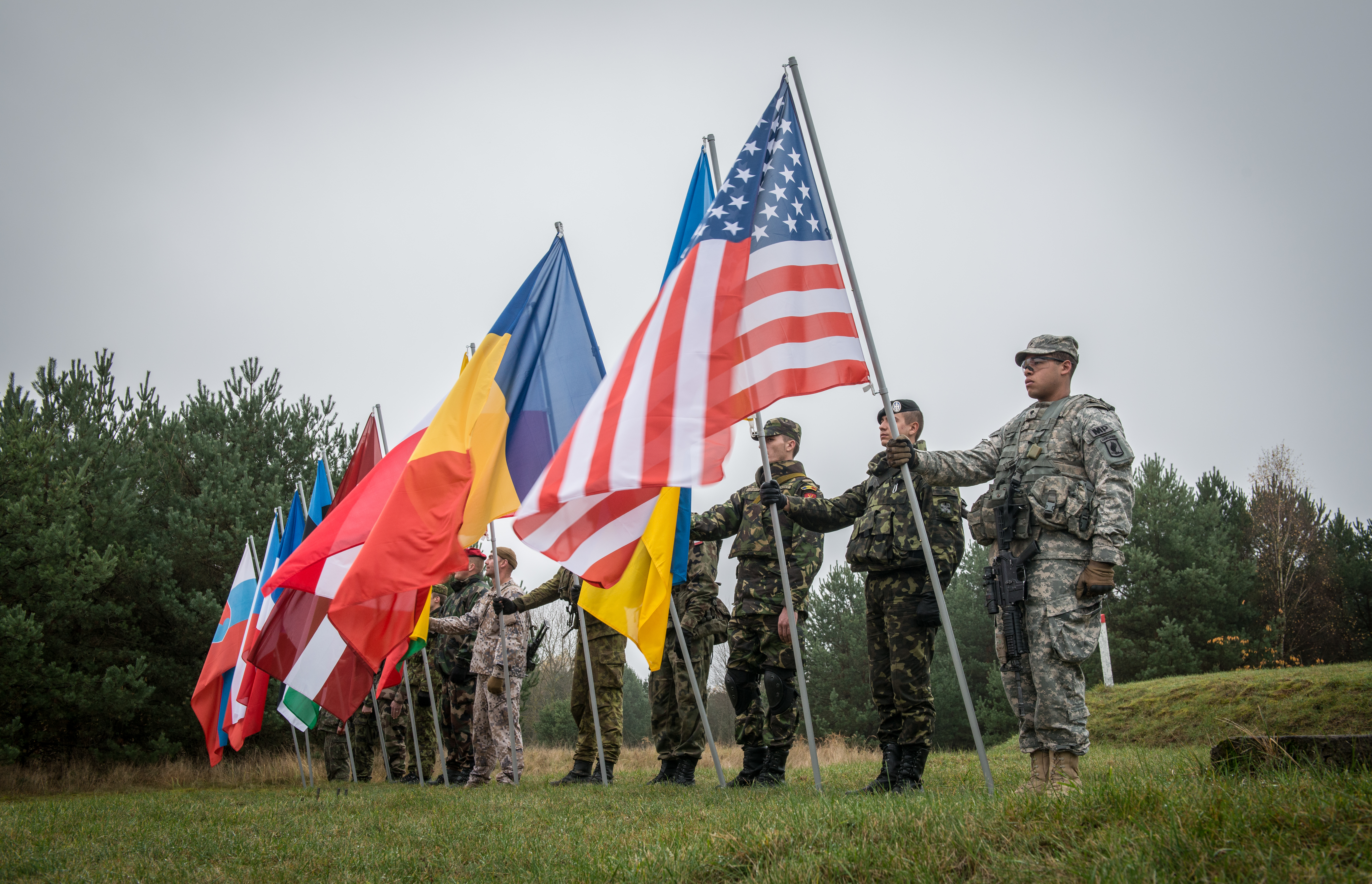 The Opening Ceremony for Ex STEADFAST JAZZ took place on the Drawsko Pomorskie Training Area, Poland, on Nov. 3, 2013. Exercise Steadfast Jazz 2013 is taking place from 1-9 November in a number of Alliance nations including the Baltic States and Poland. The purpose of the exercise is to train and test the NATO Response Force, a highly ready and technologically advanced multinational force made up of land, air, maritime and special forces components that the Alliance can deploy quickly wherever needed. The Steadfast series of exercises are part of NATO’s efforts to maintain connected and interoperable forces at a high-level of readiness. (NATO photo/SSgt Ian Houlding GBR Army)